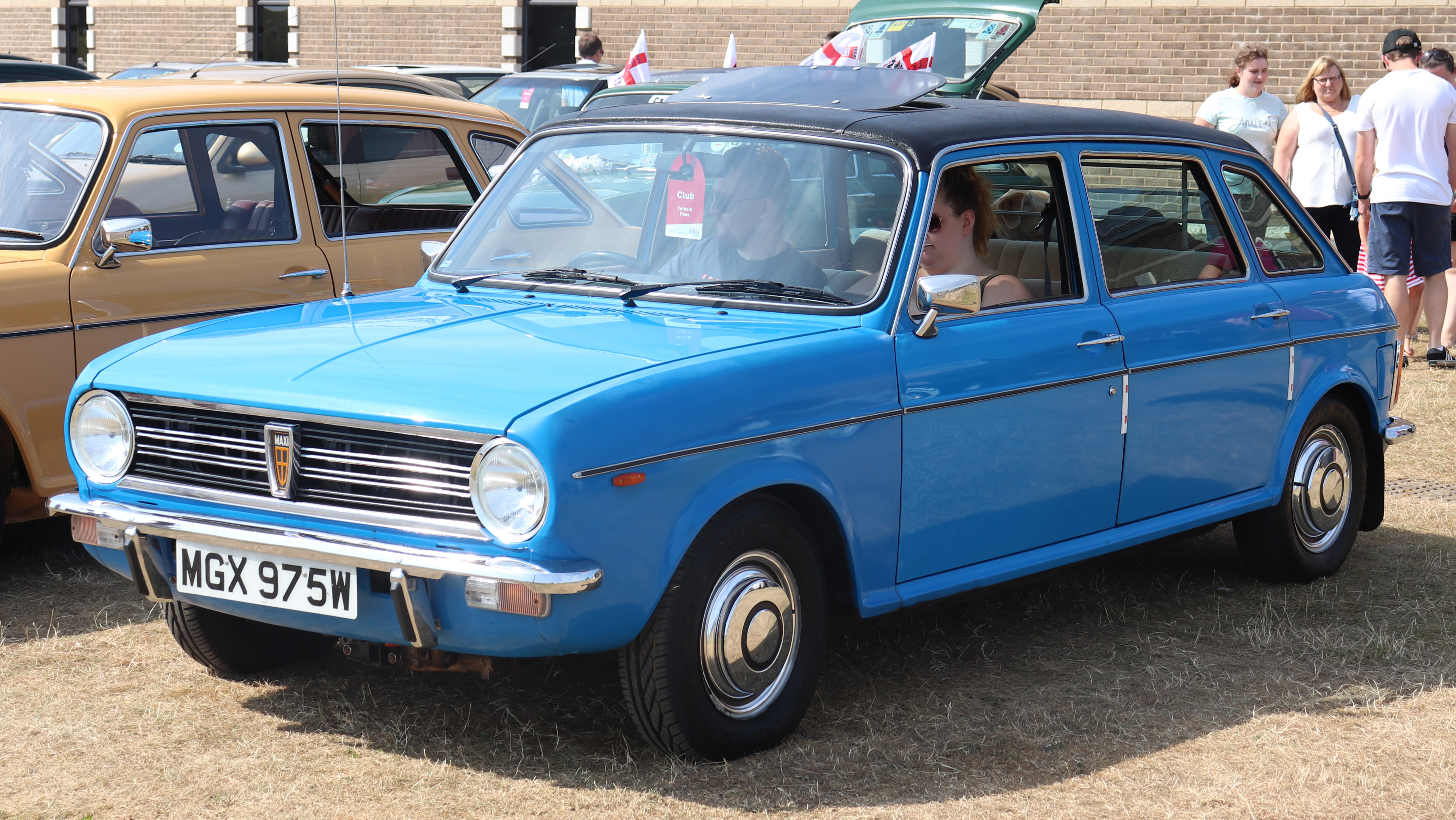 1980 Maxi 2 1750 HLS Front Taken at the British Motor Museum BMC & Leyland Show 2018, Gaydon